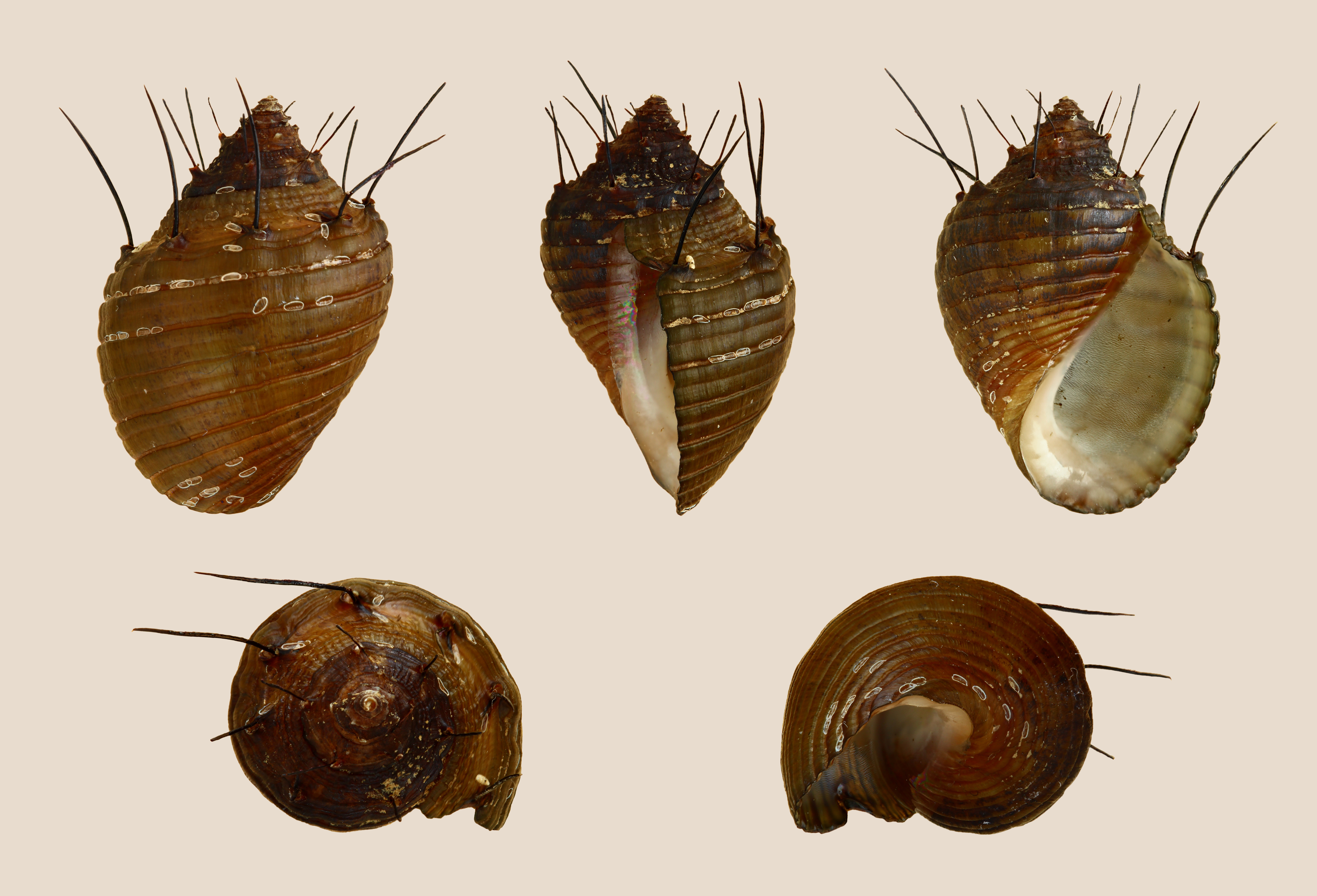 Hairy Tower Lid Snail; Length 2.0 cm; Originating from the Philippines; Shell of own collection, therefore not geocoded. Dorsal, lateral (right side), ventral, back, and front view.